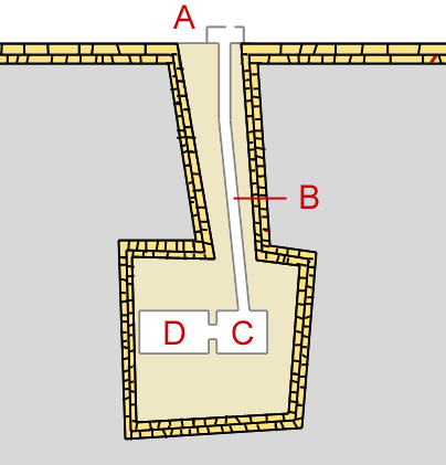 Plan of the substructure of the pyramid of Raneferef